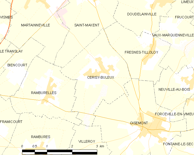 Map of French municipality Cerisy-Buleux